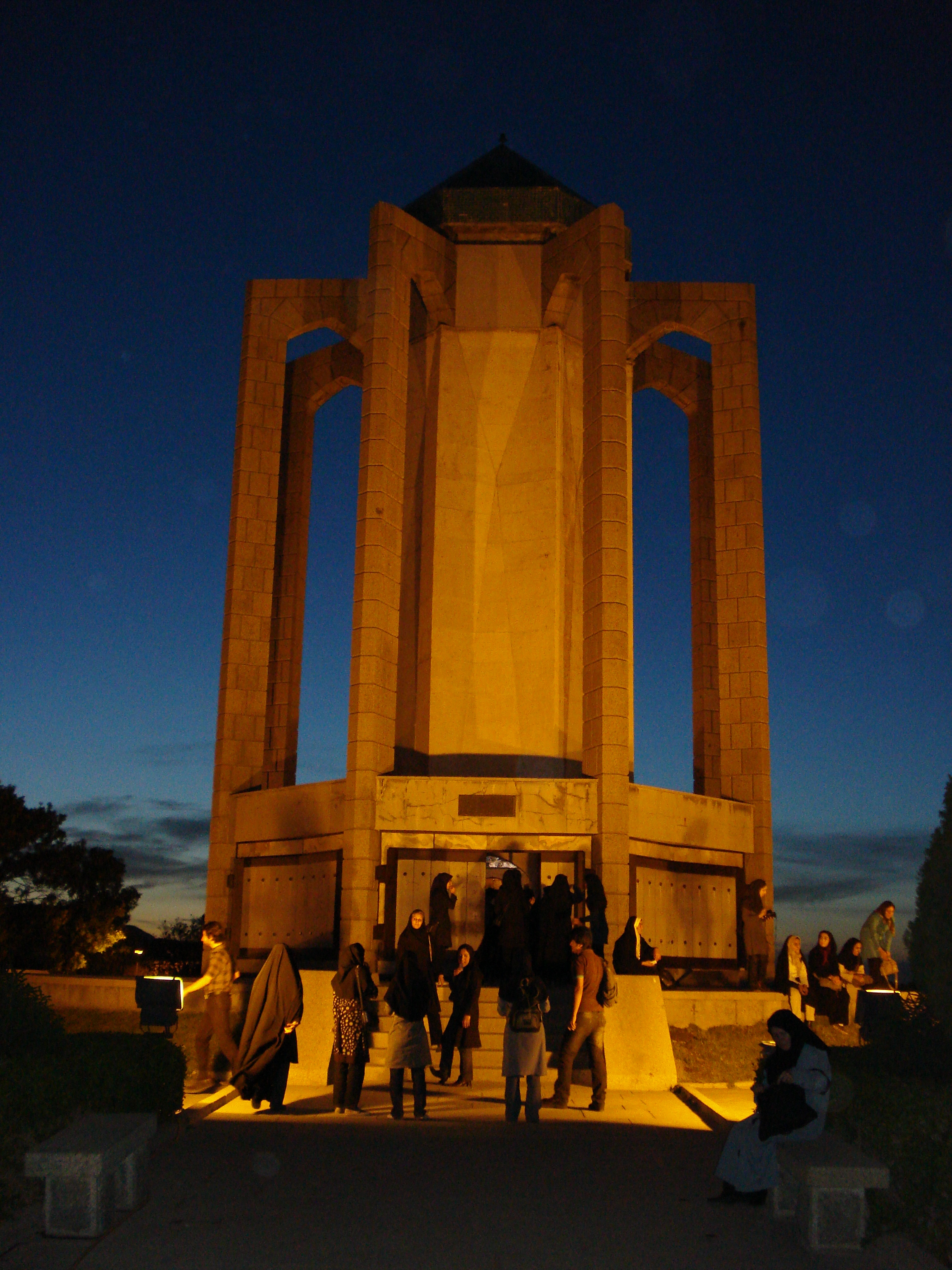 tomb of baba taher in Hamedan in iran